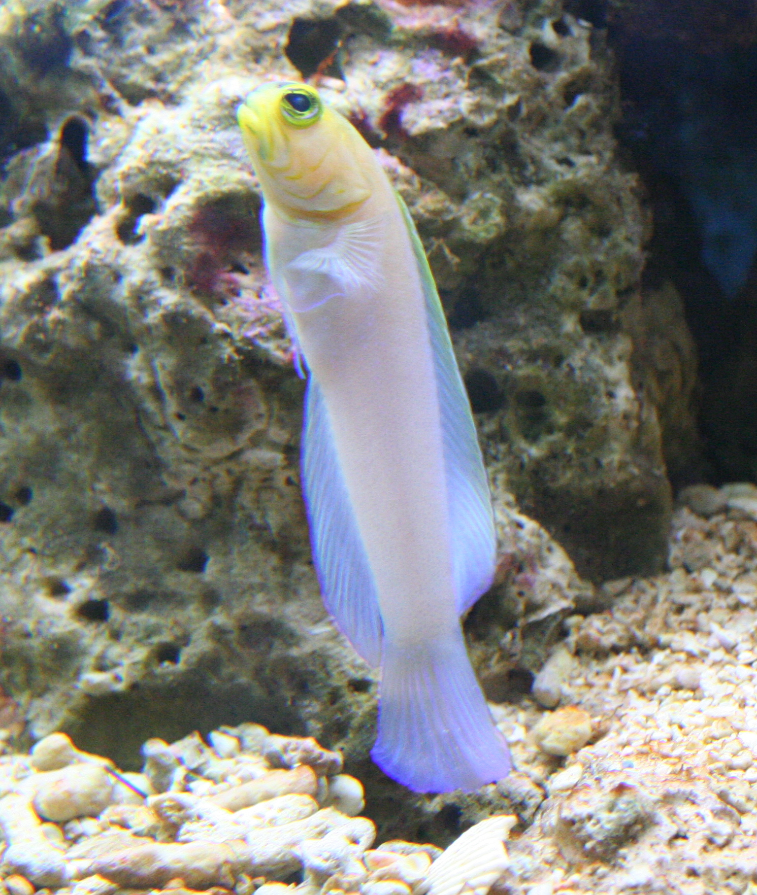 Opistognathus aurifrons